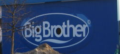 Big Brother Logo